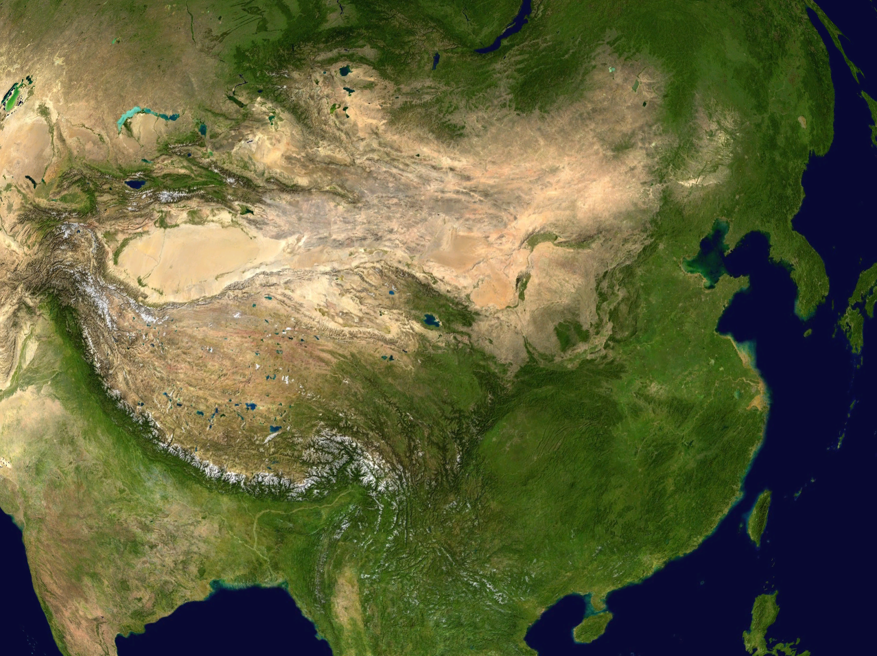 Image of China from NASA's Wordwind program